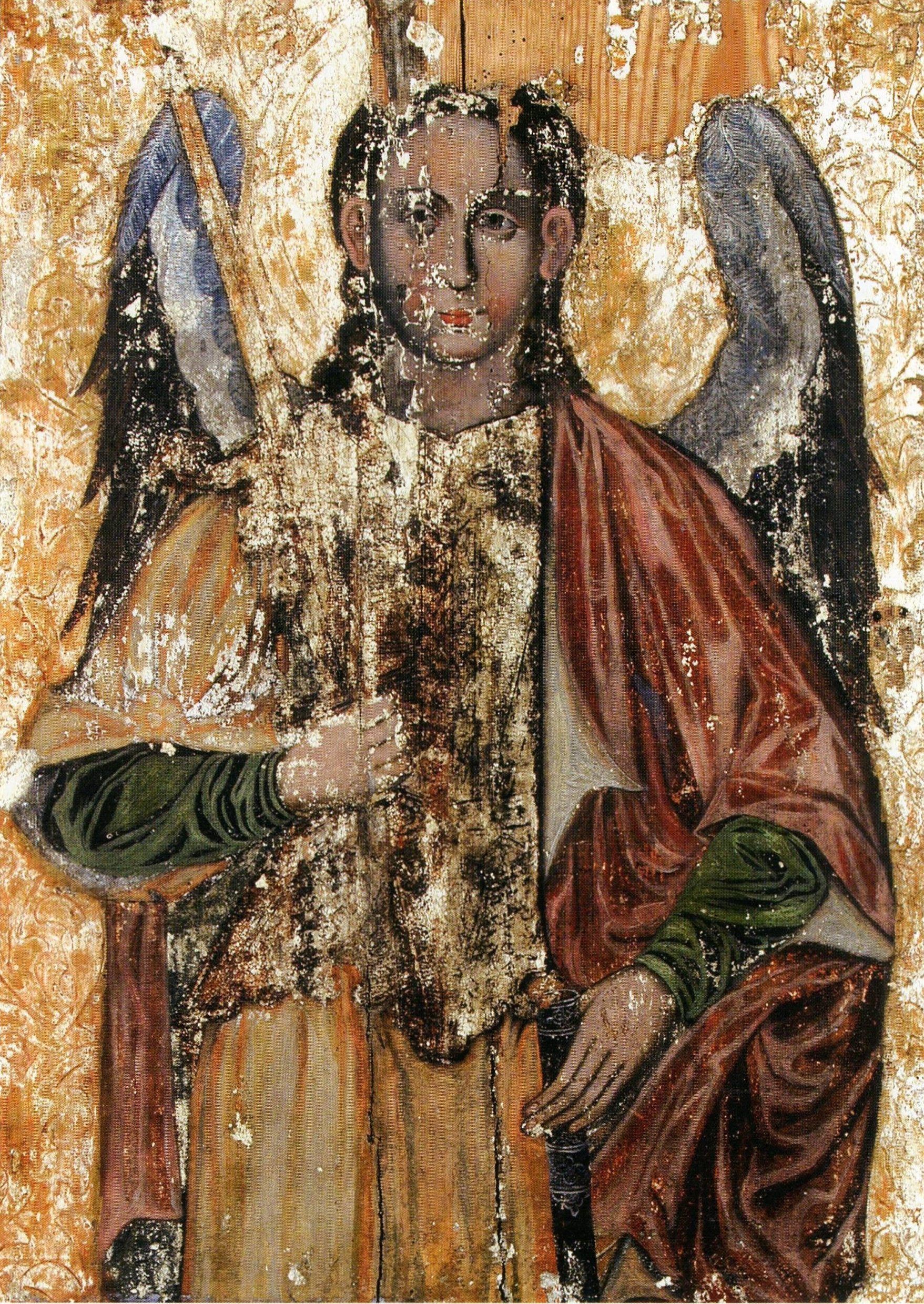 ST. MICHAEL ARCHANGEL. 2d half of the 17th c. Wood, tempera. 87x58,5x2. St. Nicolas' Church, Malaryta, Brest region. Restoration - N. Zolotukha, V. Rakitskiy.